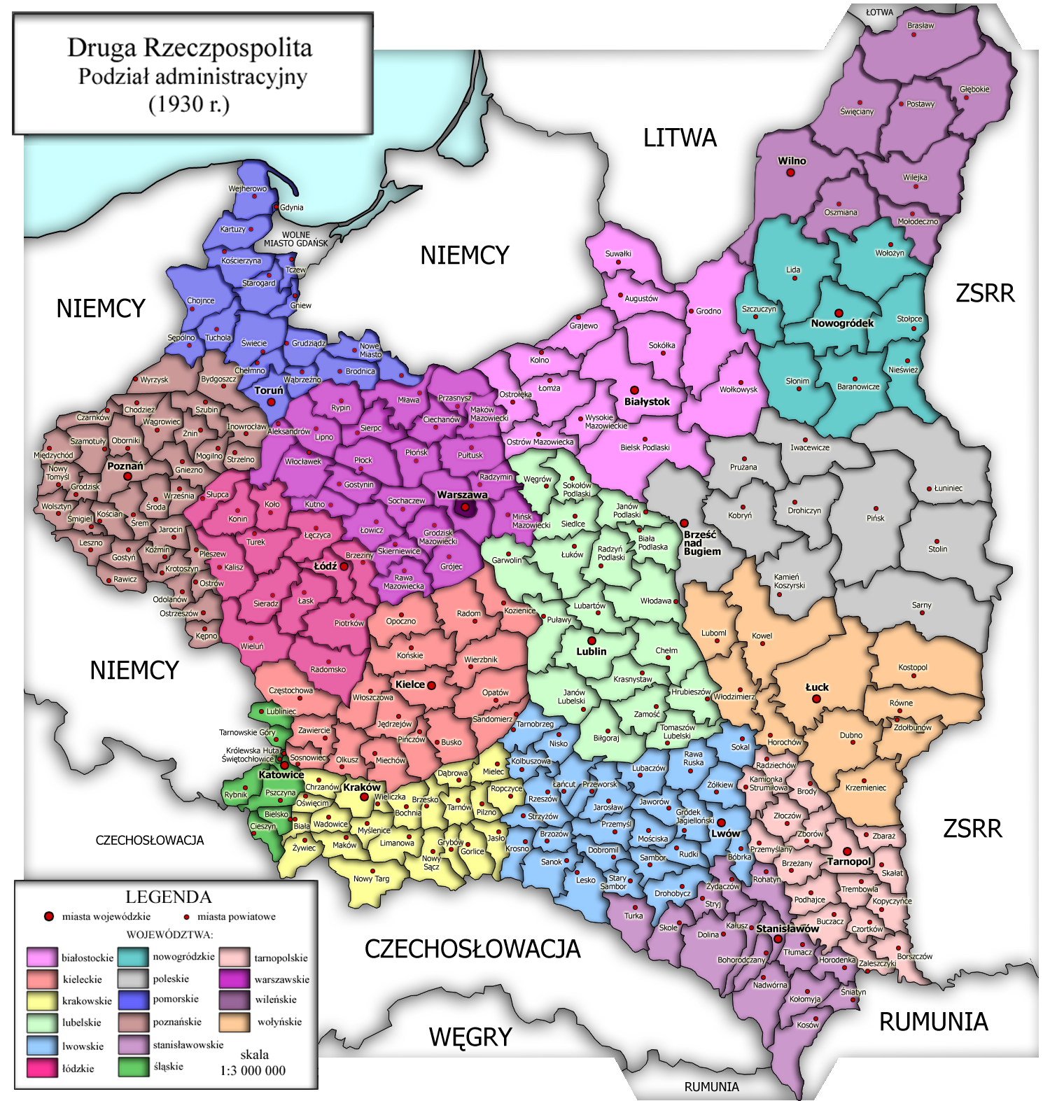 Administrative map of Poland from 1930.